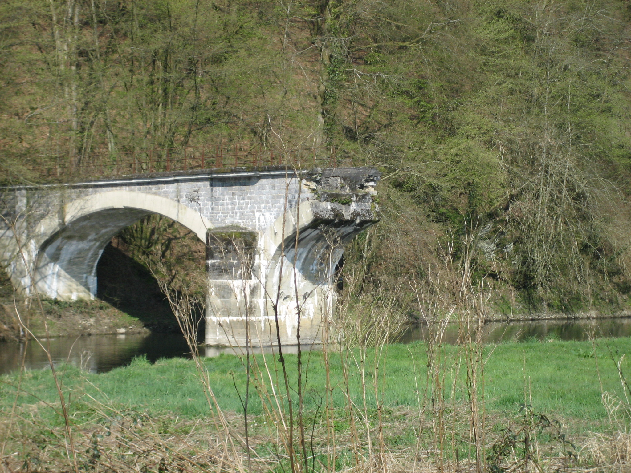 Destroyed Semois bridge near Bohan, Vresse-sur-Semois, Arrondissement of Dinant, Namur, Wallonia, Belgium